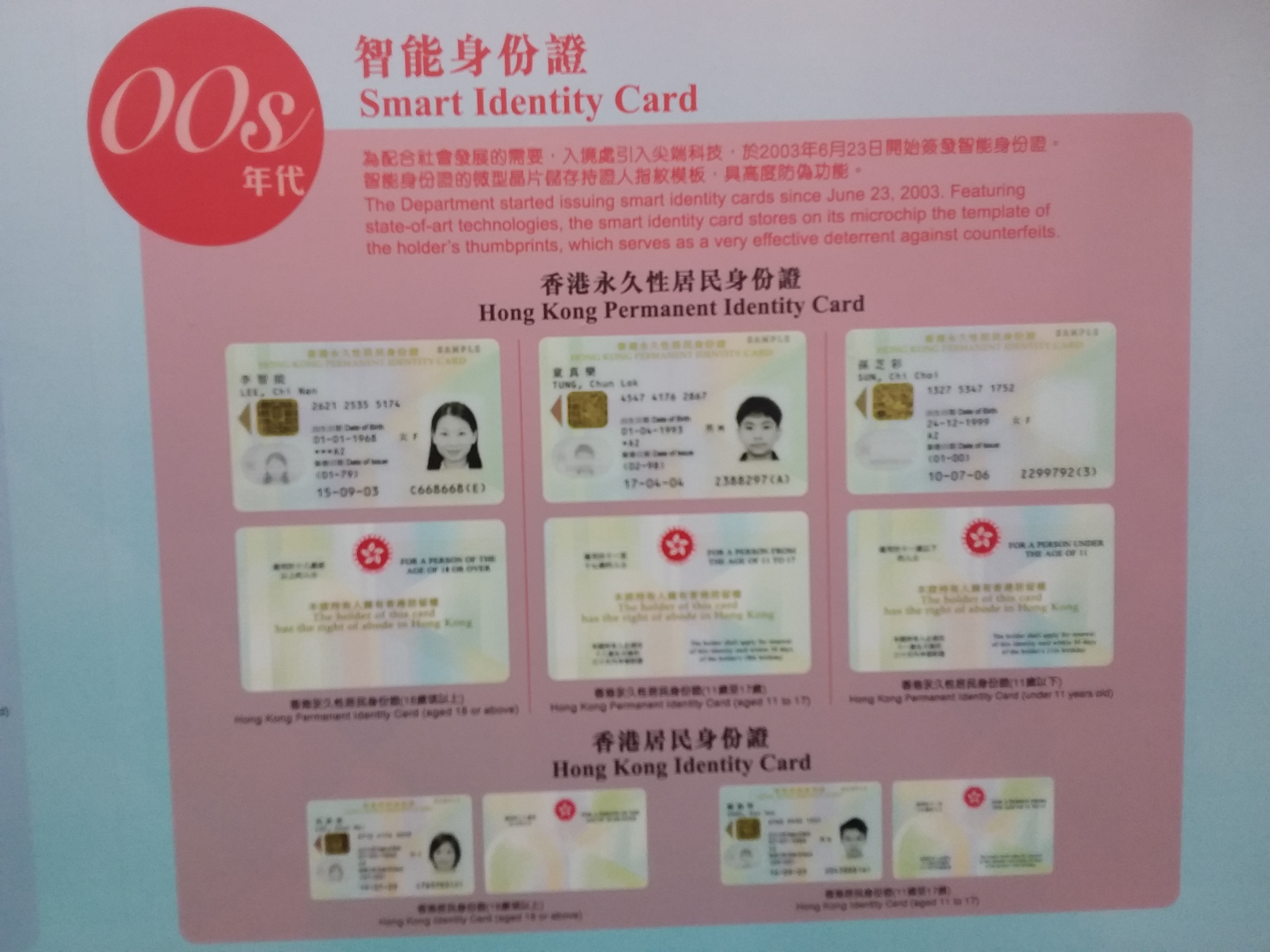 HK 灣仔北 Wan Chai North 港灣道 Harbour Road 瑞安中心 Shiu On Centre 港島智能身份證換領中心 Hong Kong Island Smart Identity Card Replacement Centre in September 2019